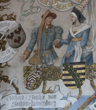 An illustration of Sophie And Gerhard at Castle Burg, Solingen, Germany.